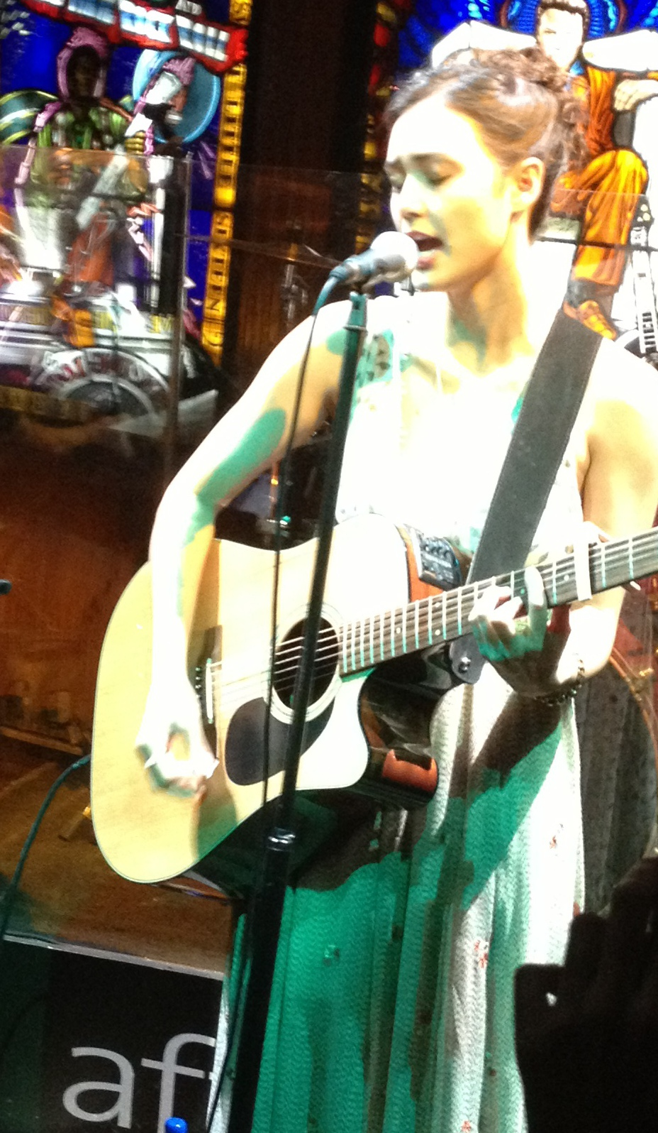 Dia Frampton at Hard Rock Cafe (sg) taken january 3rd 2012